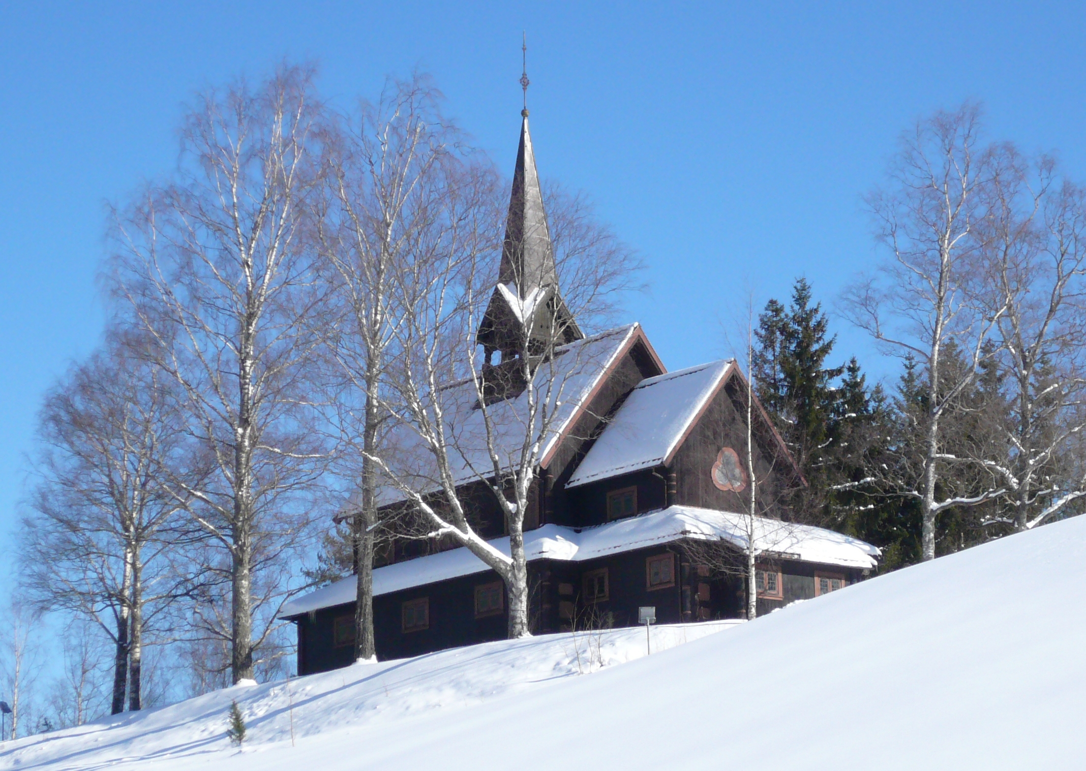 Fjågesund church seen from the north west, March 2008.